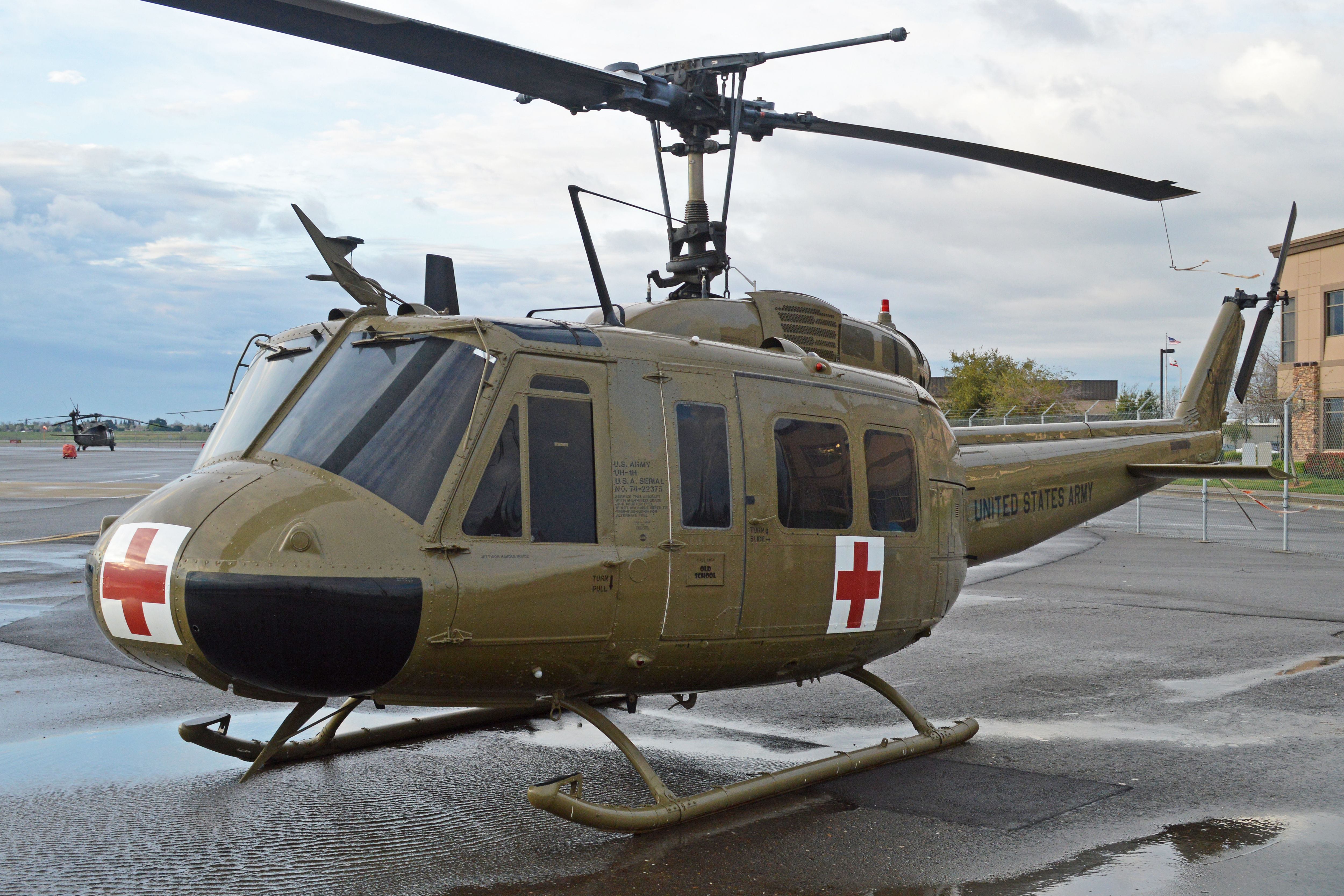 c/n 13699. Full US military serial 74-22375. On display in the corner of the US Army ramp at Sacramento Mather Airport, CA. 5th March 2016